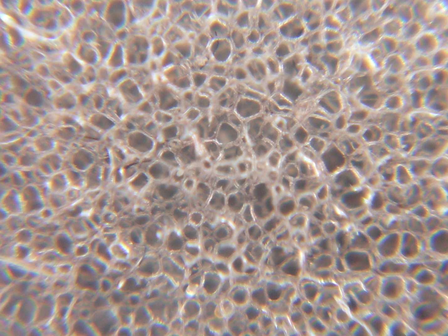 Closeup on the material of the fabric cover of a Creative Inspire P580 speaker. The translucency and the delicateness of the material can be clearly seen along with its structure.